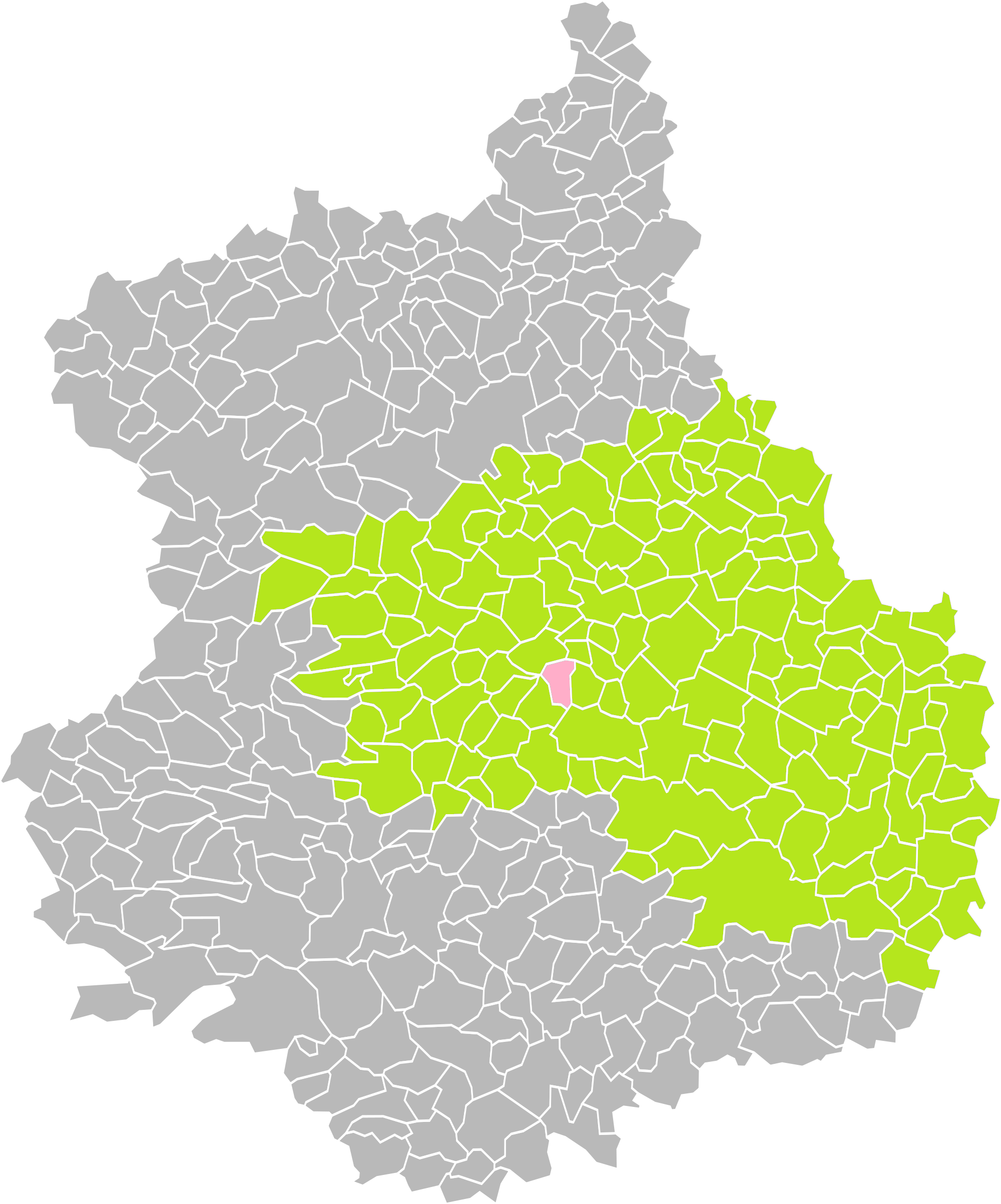 Location of the commune of Thivars in the arrondissement of Chartres (Eure-et-Loir)